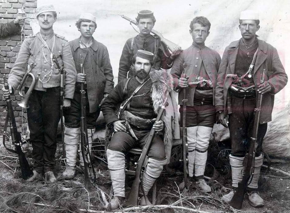 Nikola Dosev IMARO cheta